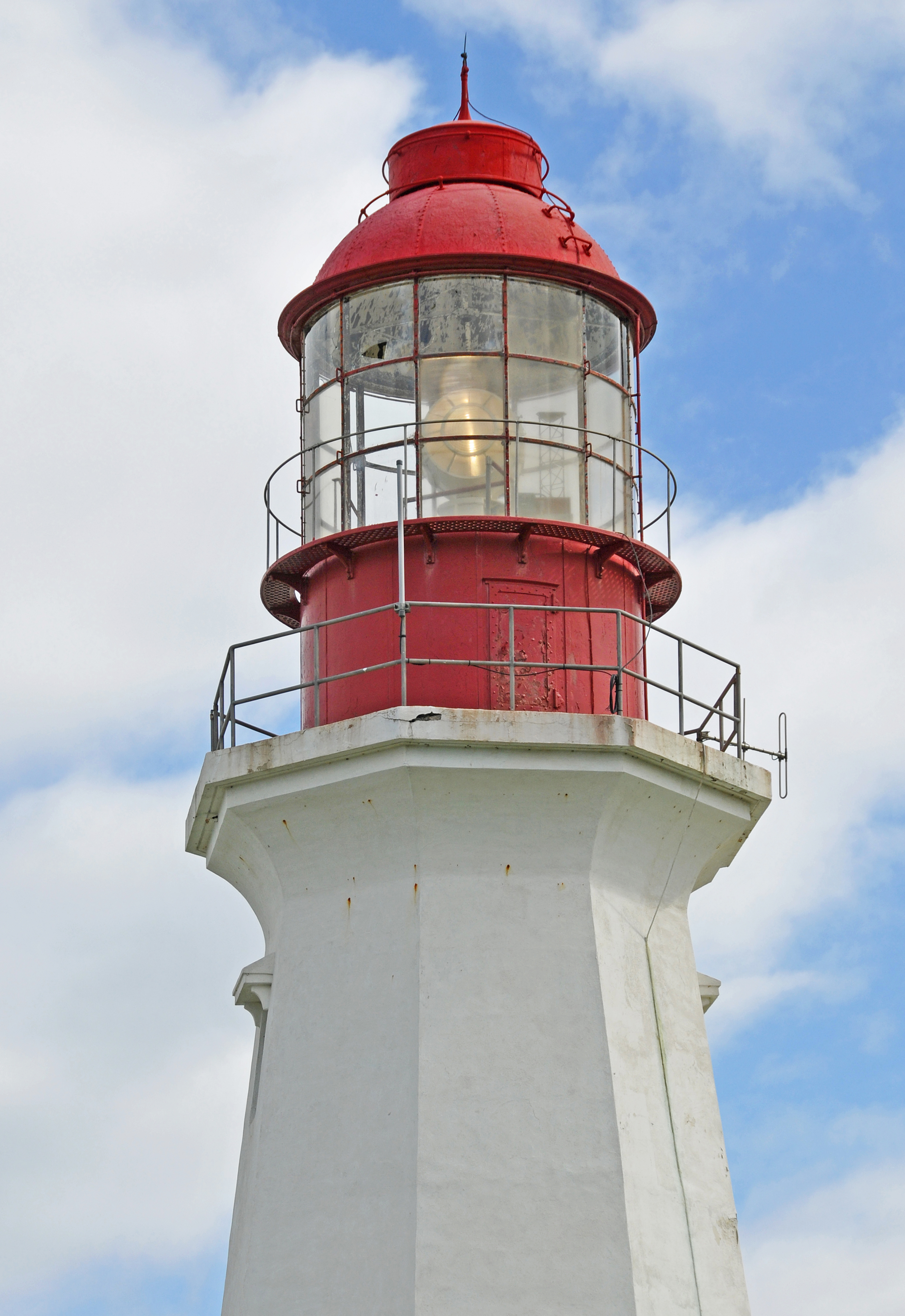 Low Point Lighthouse at northeast entrance to Sydney Harbour in Nova Scotia, Canada My photos are FREE for anyone to use, just give me credit and it would be nice if you let me know, thanks - NONE OF MY PICTURES ARE HDR. The first lighthouse was an octagonal wood tower, 21 meters (69ft) high. It had a round iron lantern and a 3rd order double bullseye lens manufactured in France. This lighthouse was replaced in 1936 by the current concrete tower, but the original lantern and lens were retained. It has the only remaining circular lantern in Nova Scotia. Location: Northeast entrance to Sydney Harbour Began and Lit: 1938 Tower Height: 22 meters (72ft) Light Height: 23.8 meters (78ft) above water level